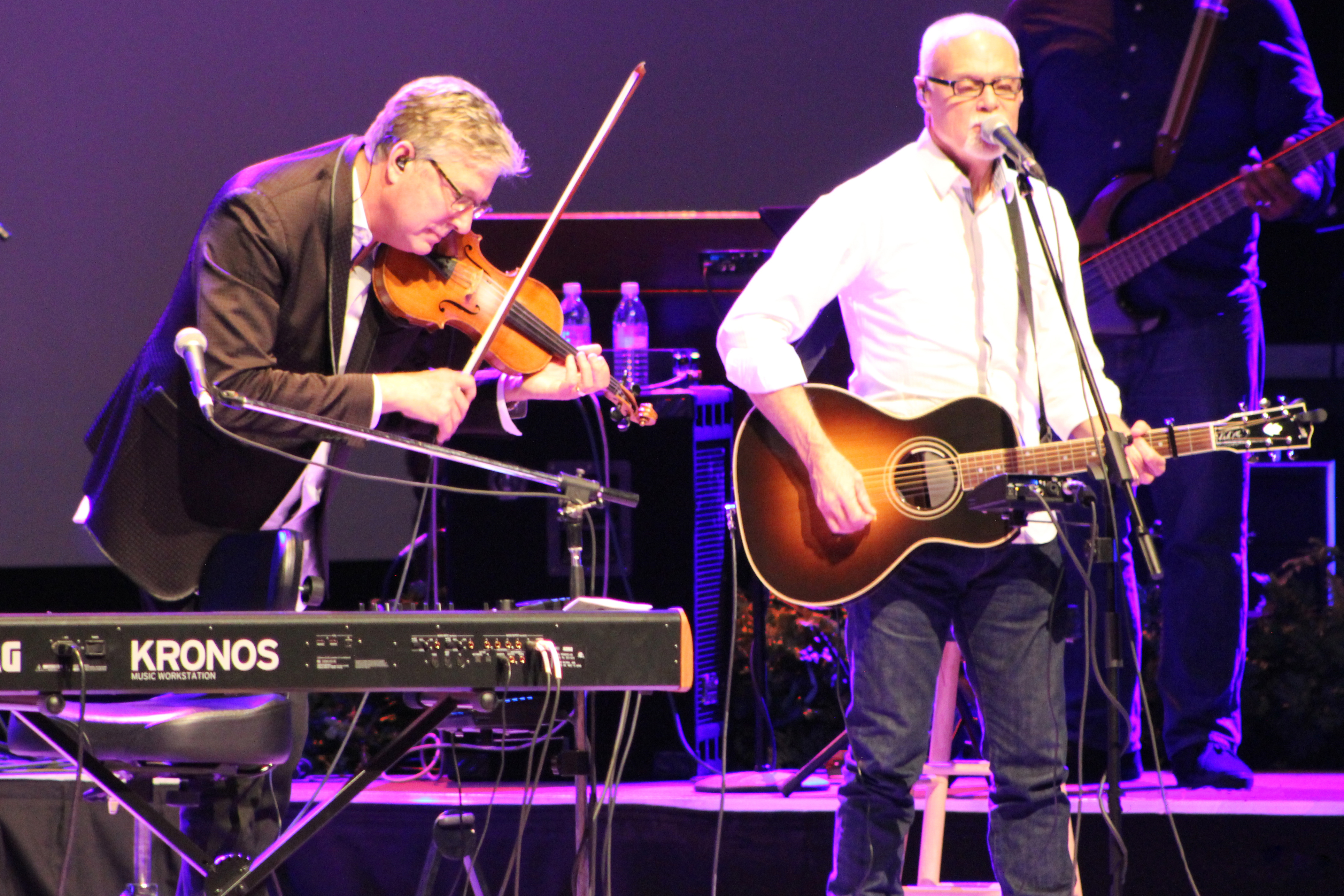 Don Moen Canada Tour 2015 at the Prayer Palace, Toronto